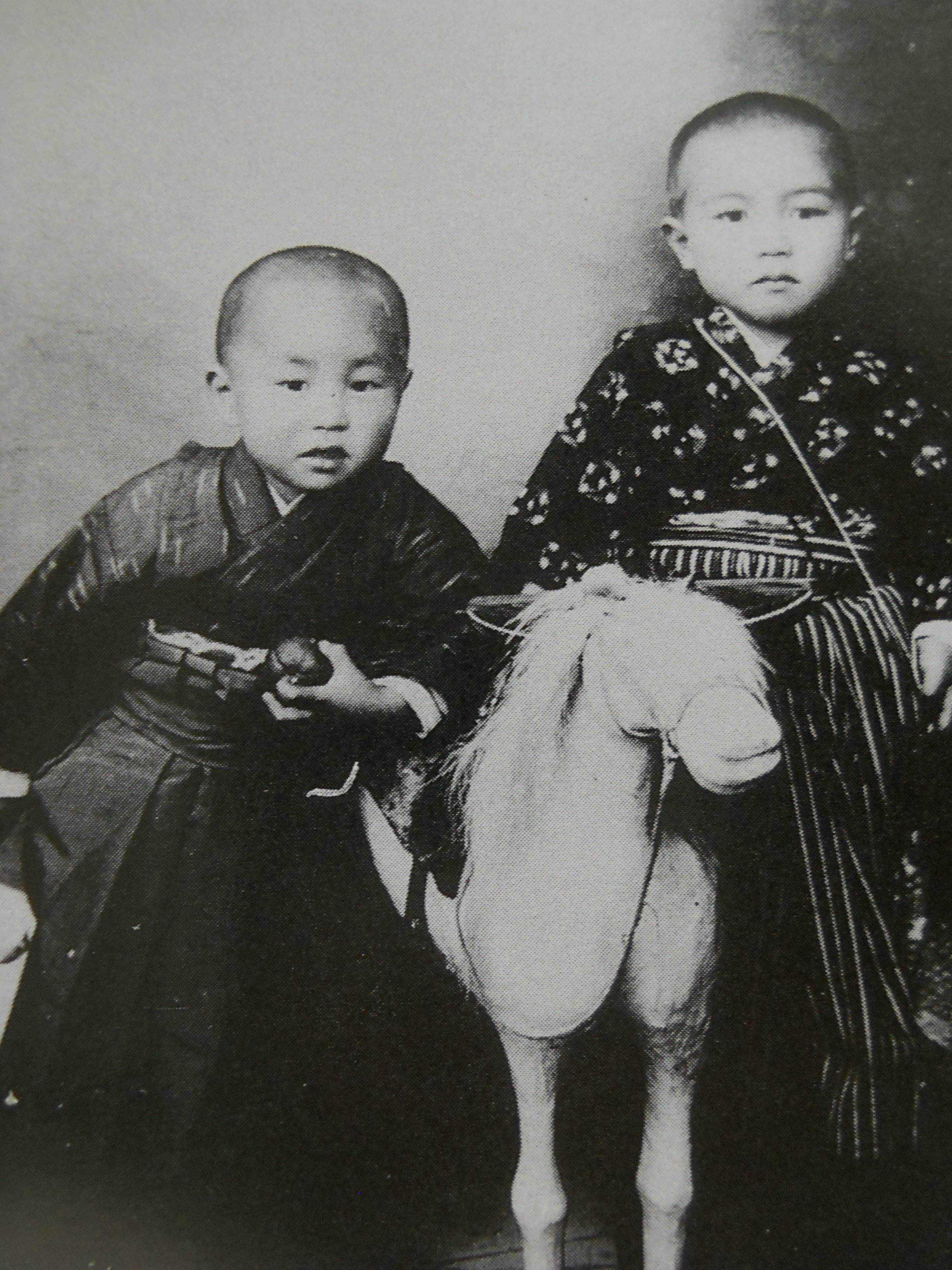 Nakahara Tyuuya and brother